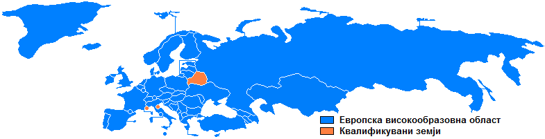 European Higher Education Area